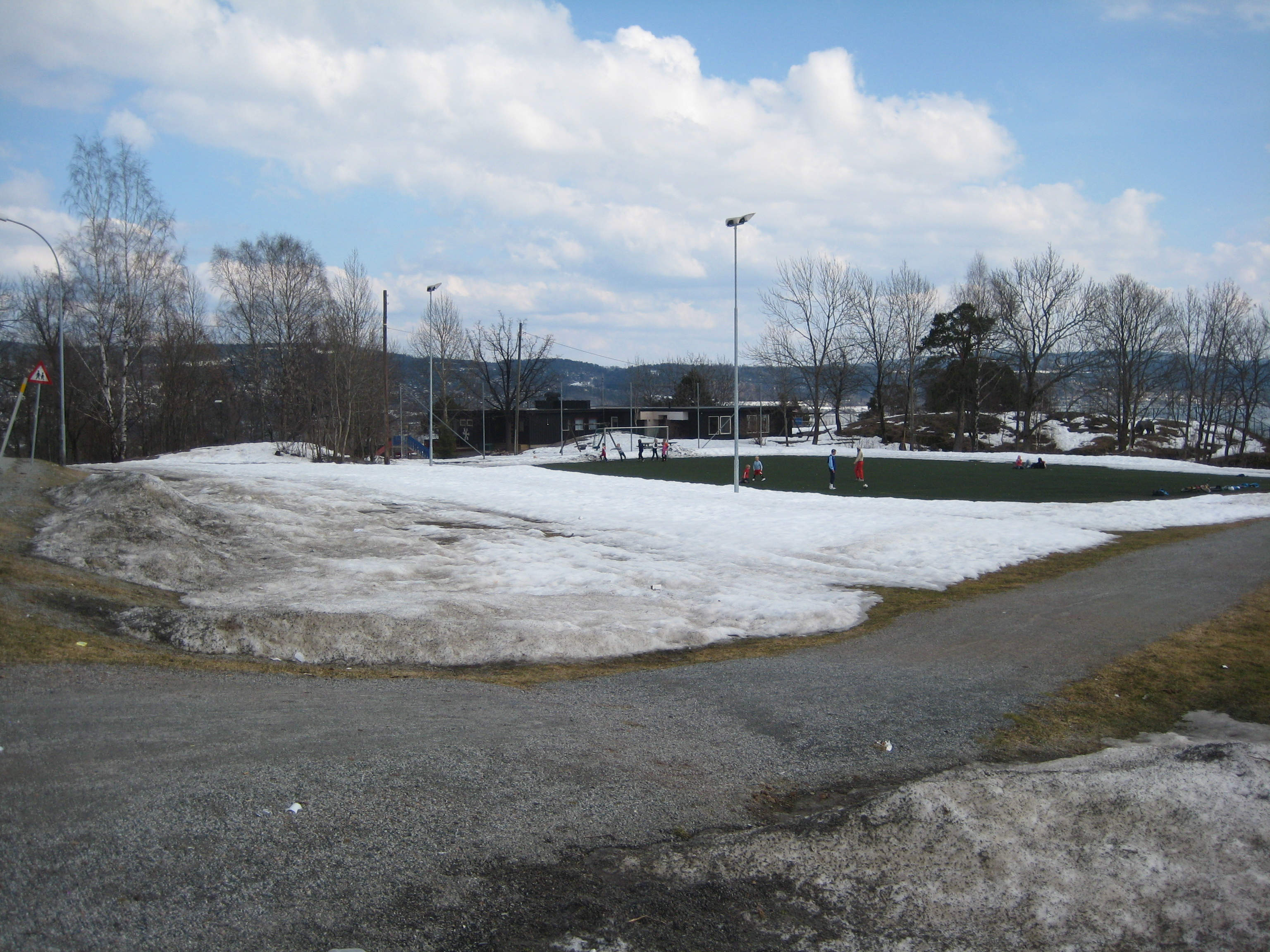 Kjappen, Toppenhaug, Drammen, Norway. A recreational area